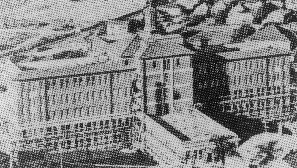 Royal Women's Hospital in Brisbane at the time of its opening, 1938 Two-storey kitchen block in the foreground.